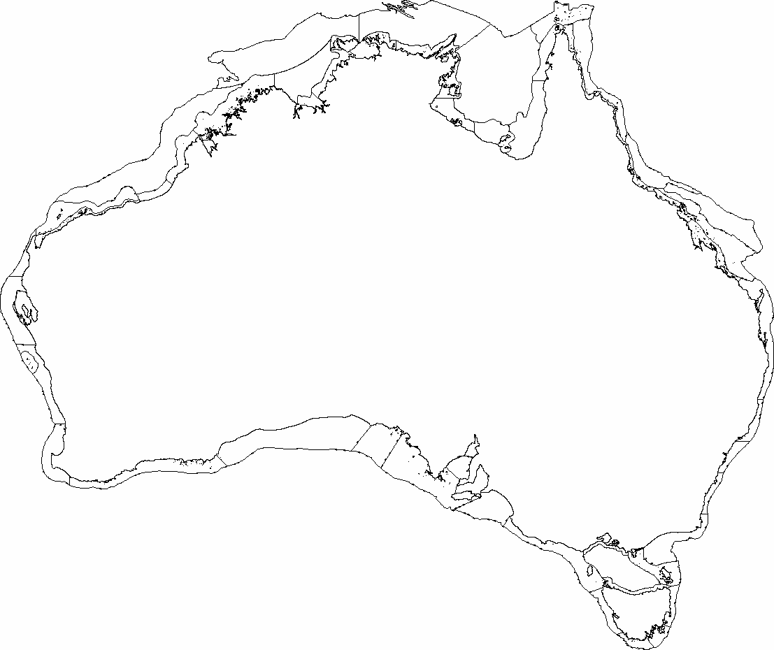 This is a map of the Integrated Marine and Coastal Biogeographic Regionalisation for Australia (IMCRA) Version 4.0 mesoscale bioregions.